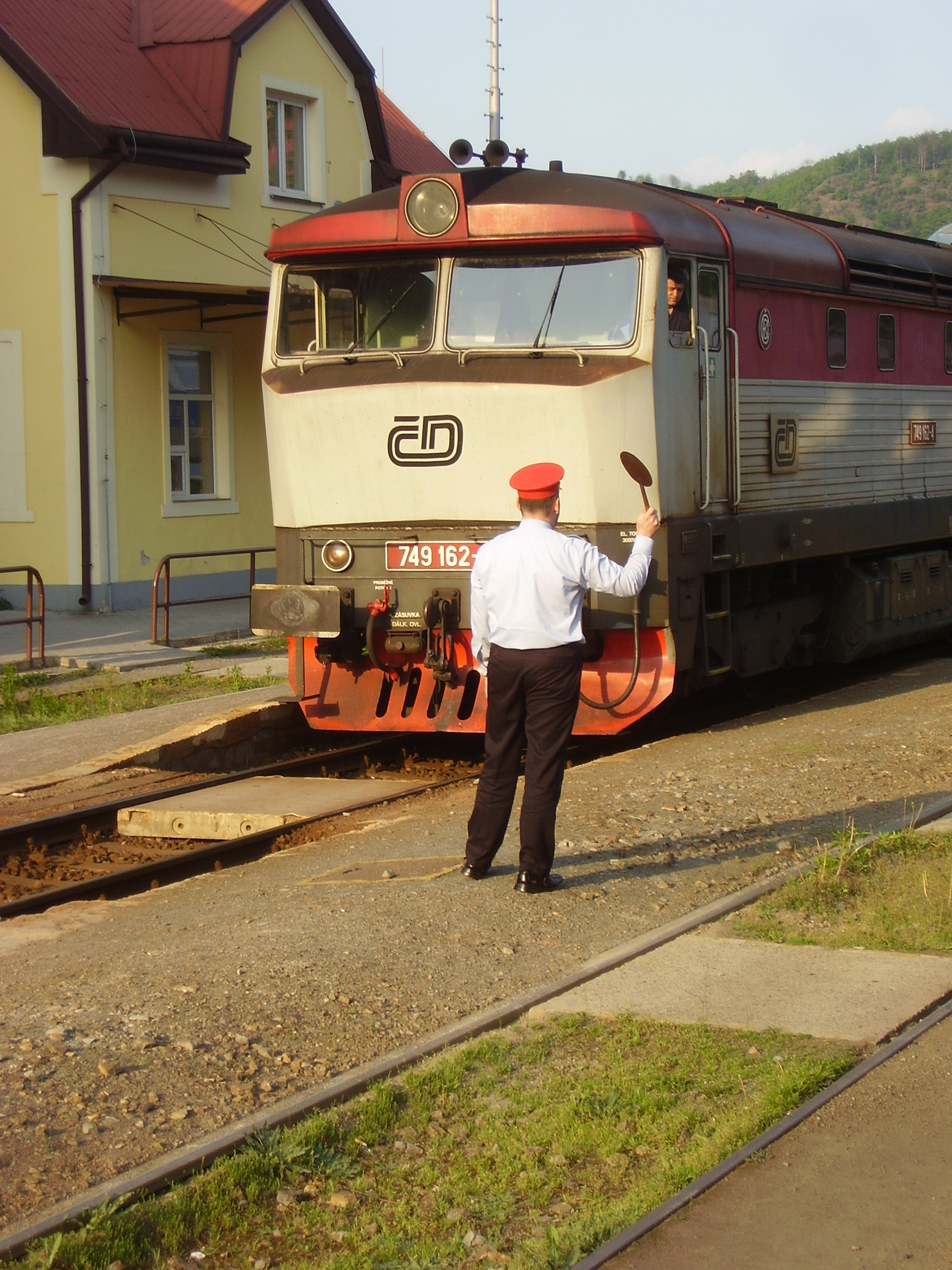 Train dispatcher in Vrané nad Vltavou train station with locomotive 749